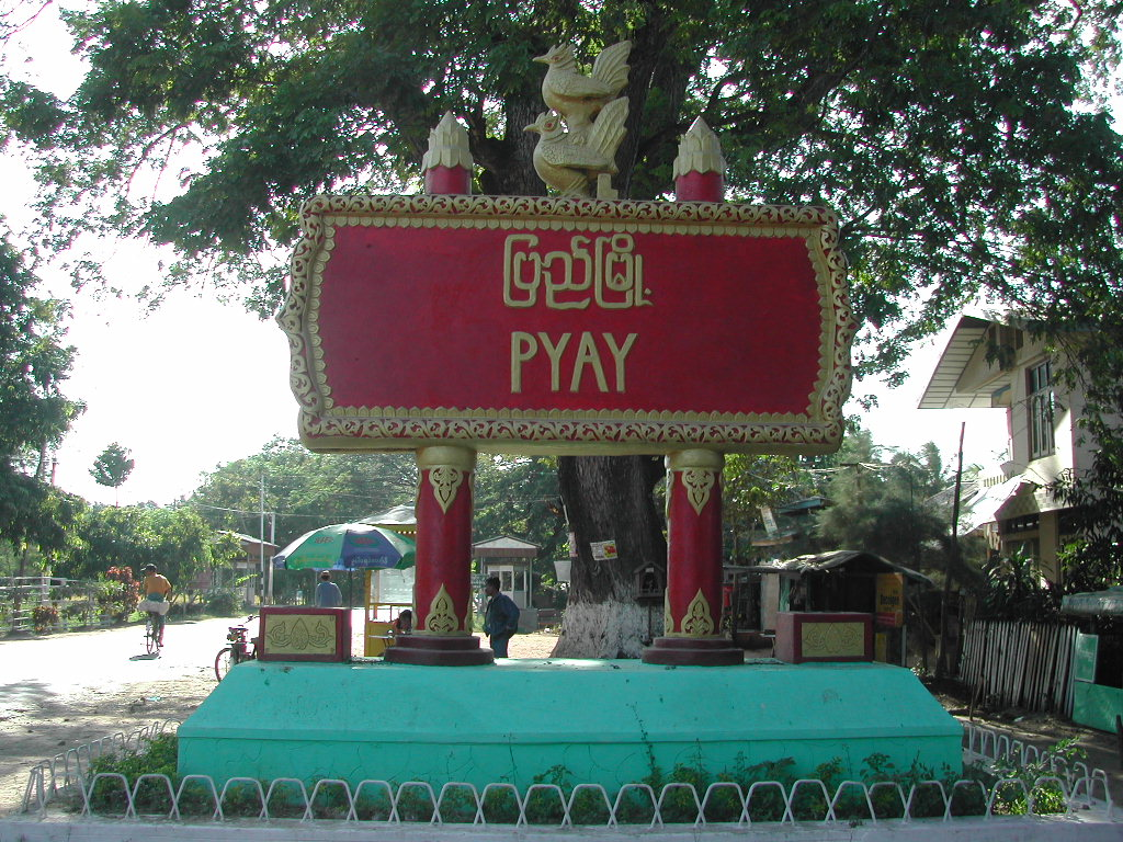 Welcome town sign of Pyay, Myanmar.